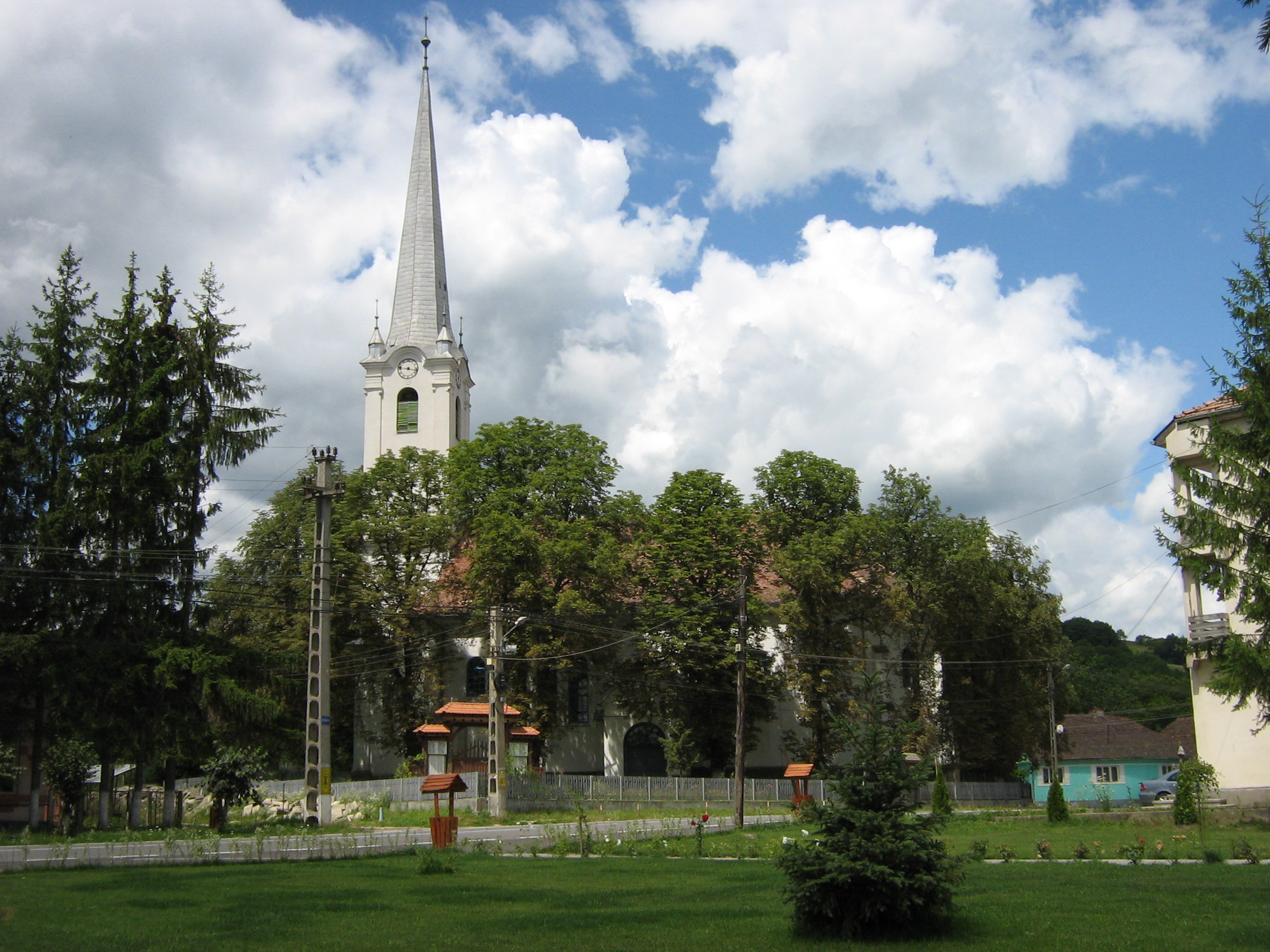 Reformed church in Ghindari